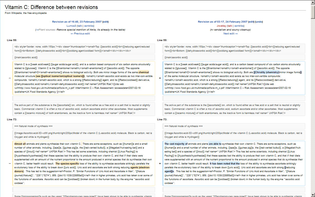 A new version of History comparison example.png, this file shows Wikipedia as it is now, in Vector format. The old version used Monobook format, which doesn't look right.